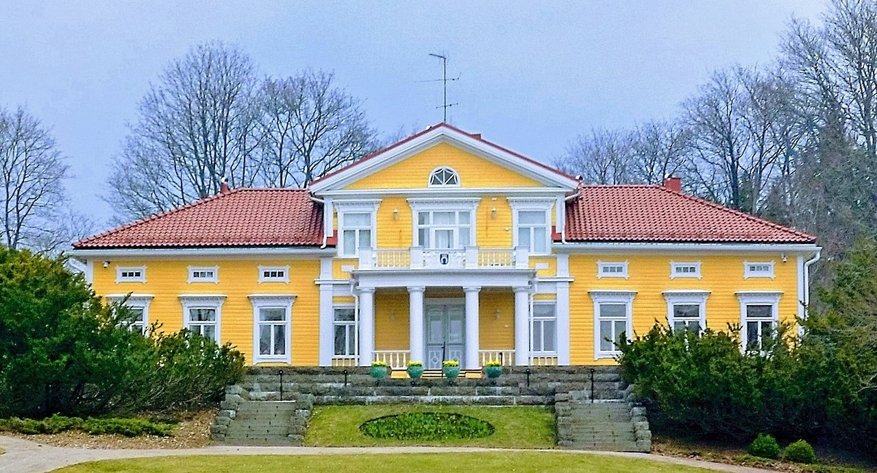 Gumböle manor house, Espoo, Finland. It's the official residence of the Mayor of Espoo.